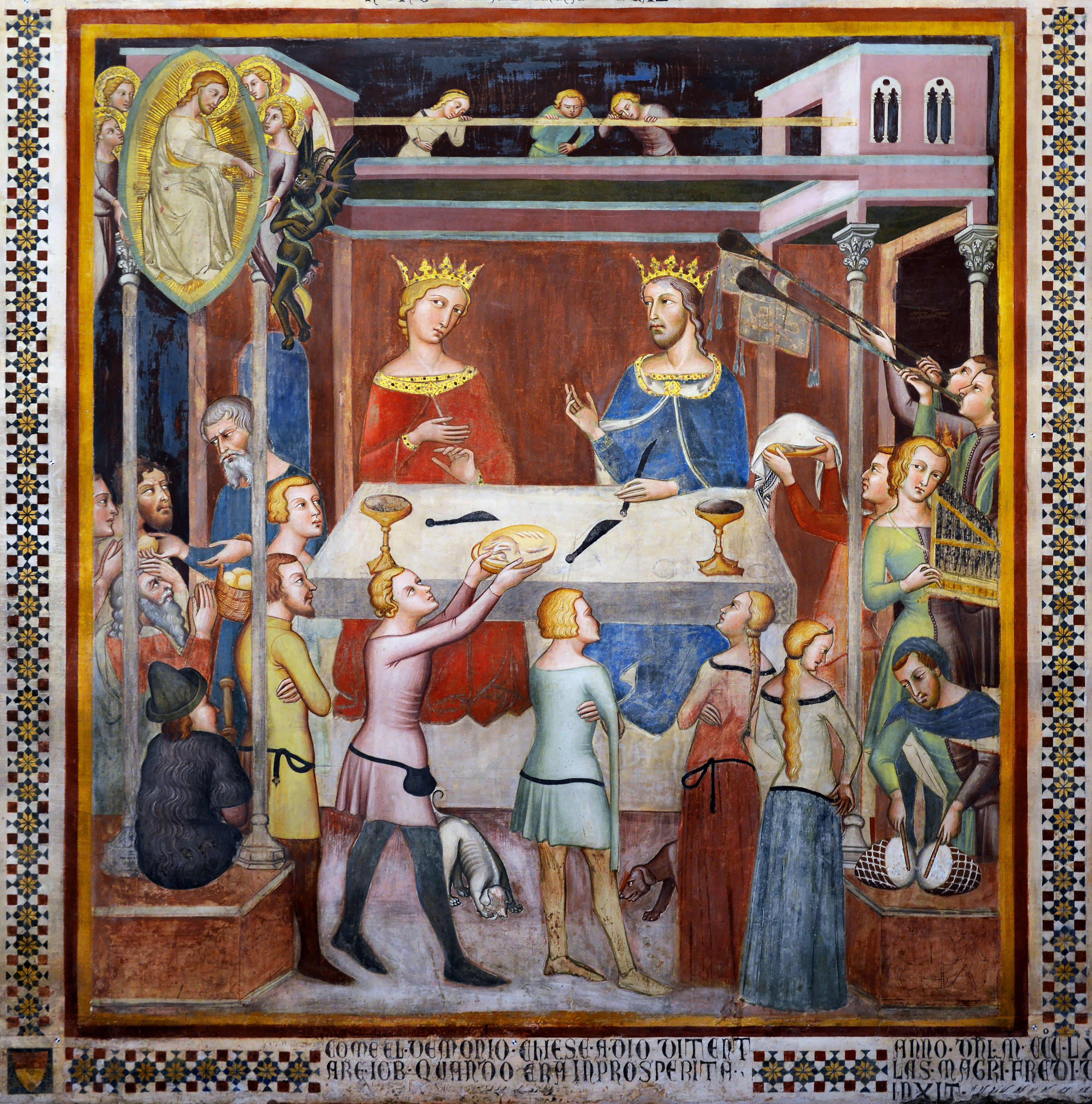 God grants the devil to tempt Job